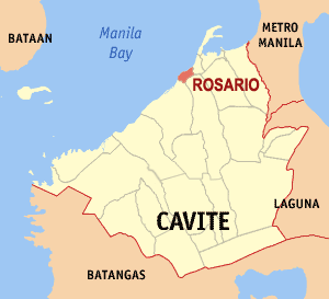 Map of Cavite showing the location of Rosario